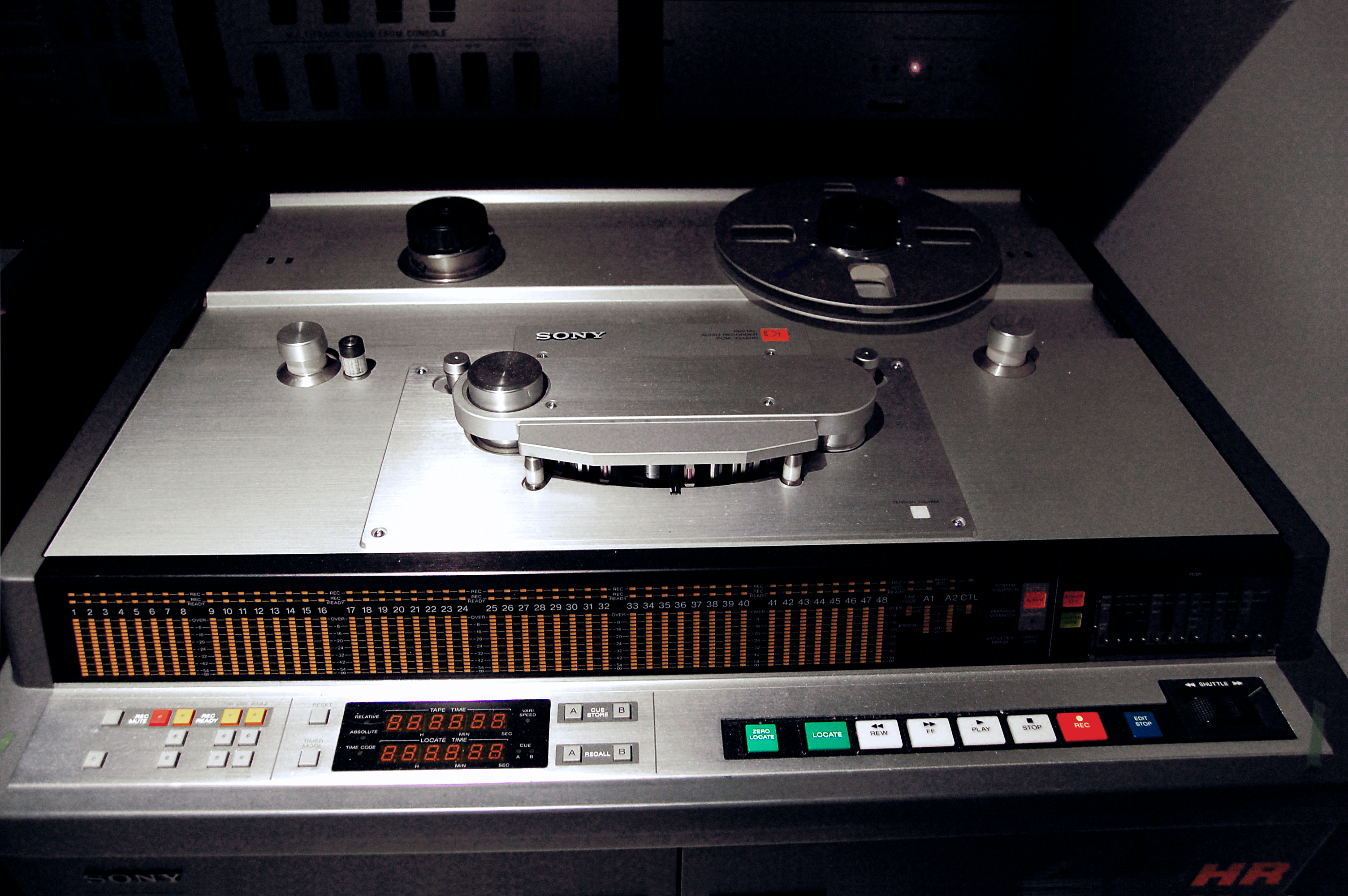 Sony PCM-3348HR Digital Audio Multitrack Recorder, Avex Honolulu Studios